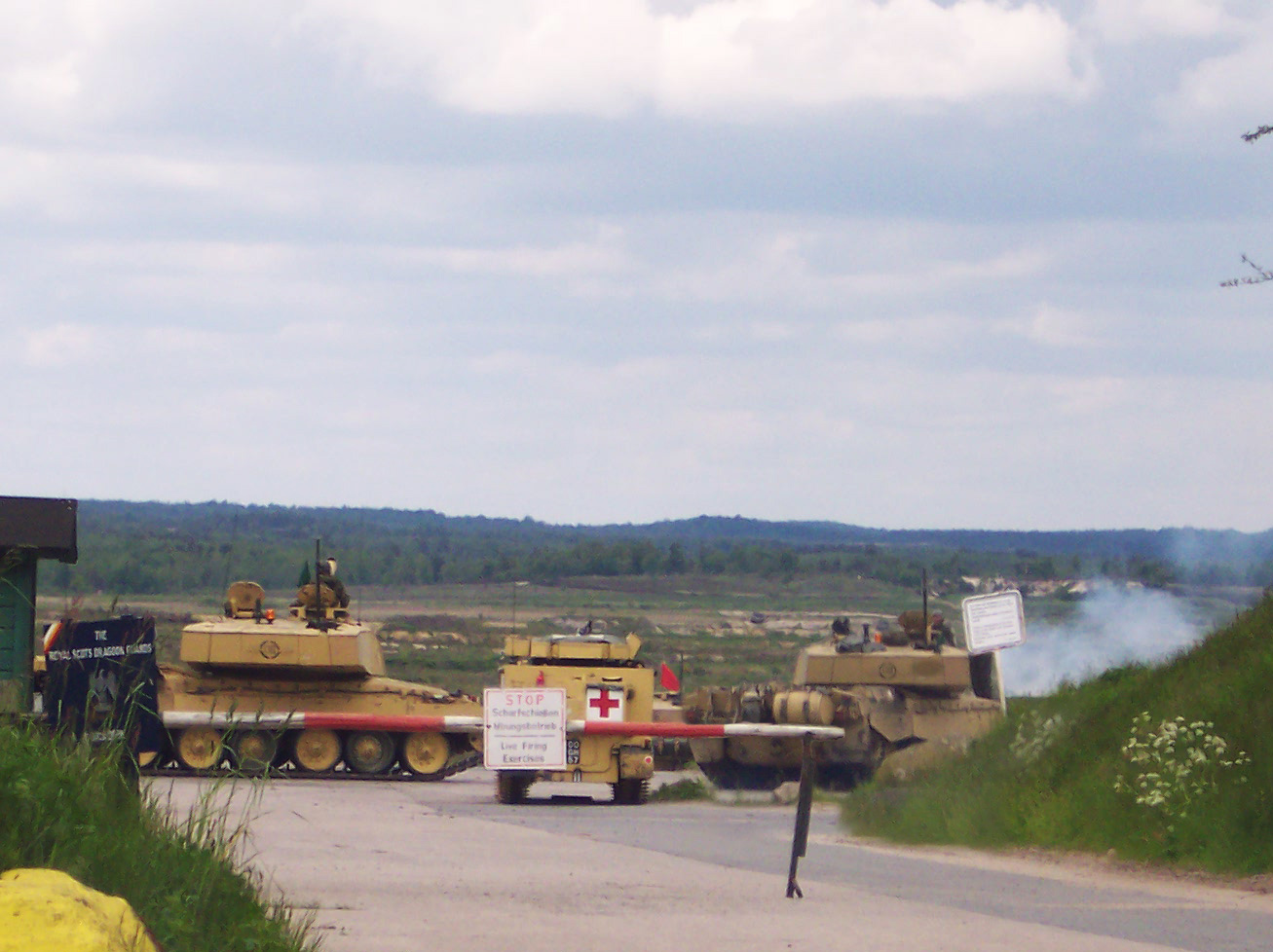 The Royal Scots Dragoon Guards (SCOTS DG, Squadron C) of the British Army with the MBT Challenger 2 during live fire training exercises in 2004 on Bergen-Hohne Training Area (Range SB 7B) (Lower Saxony, Germany).